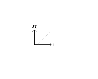 Ramp function